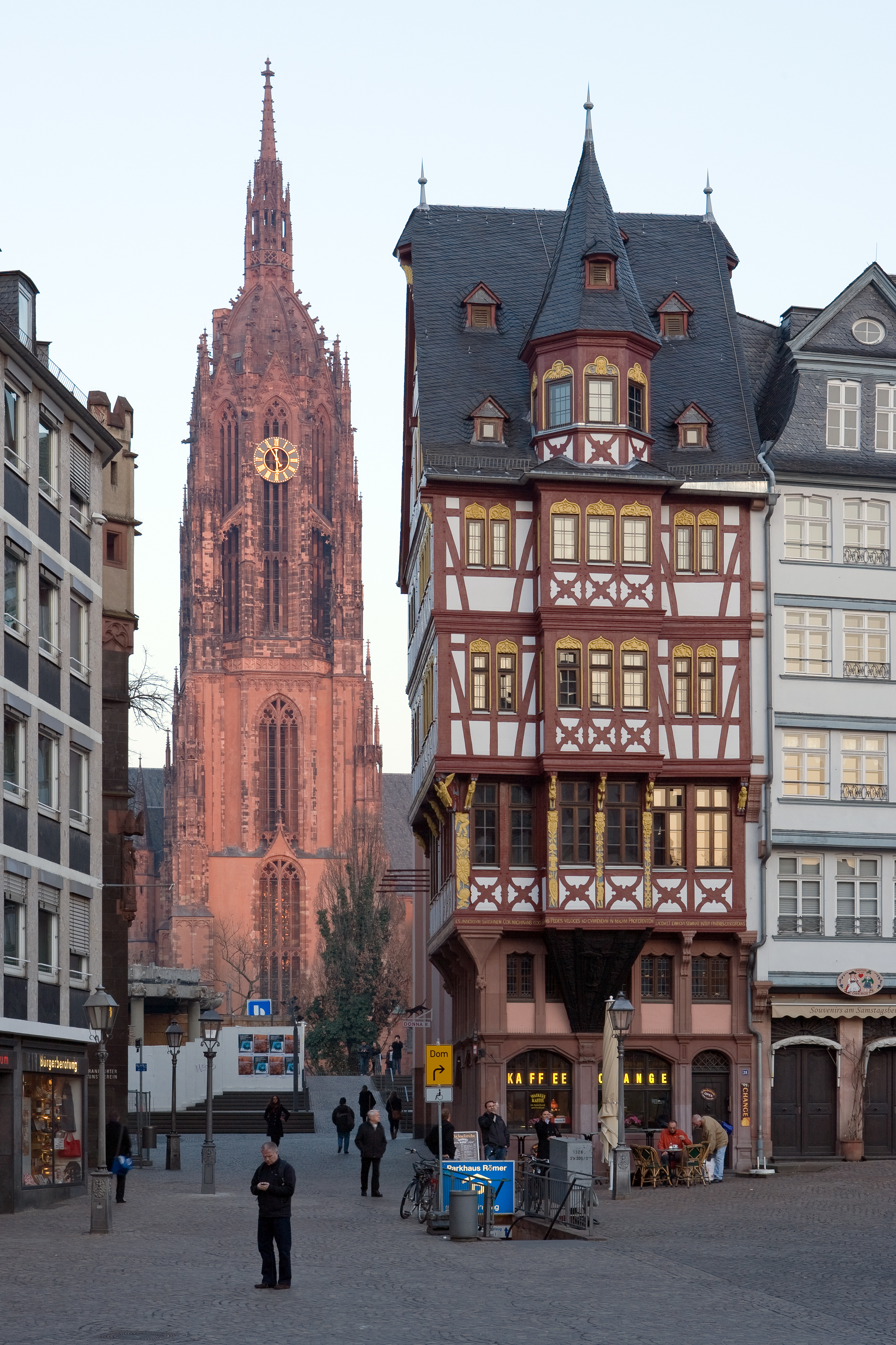 Frankfurt on the Main: Grosser Engel (Great Angel) as seen from the Roemerberg, to the left the spire of Frankfurt Cathedral